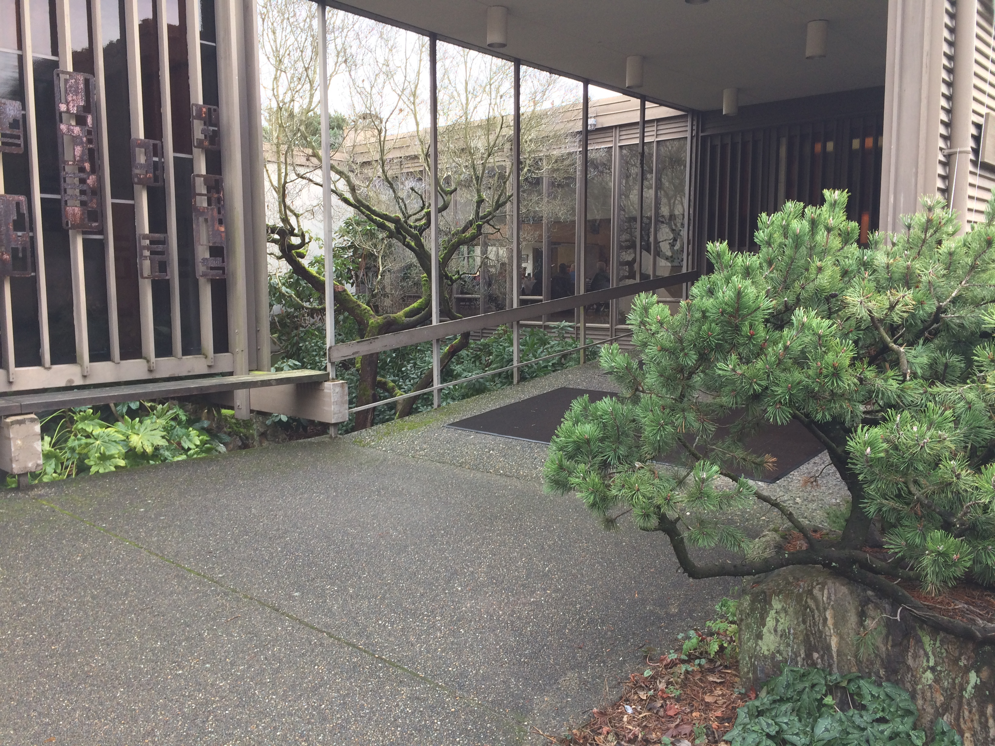 University Unitarian Church in Northeast Seattle